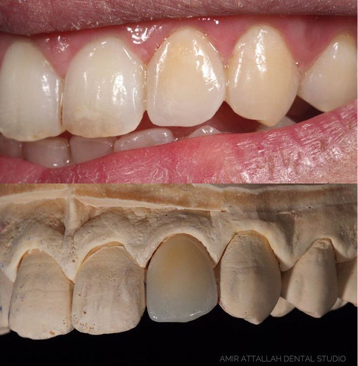 Full anatomical vita CAD-CAM crowns stained with luster paste. Displayed is the final result in the patient's mouth and on the cast.